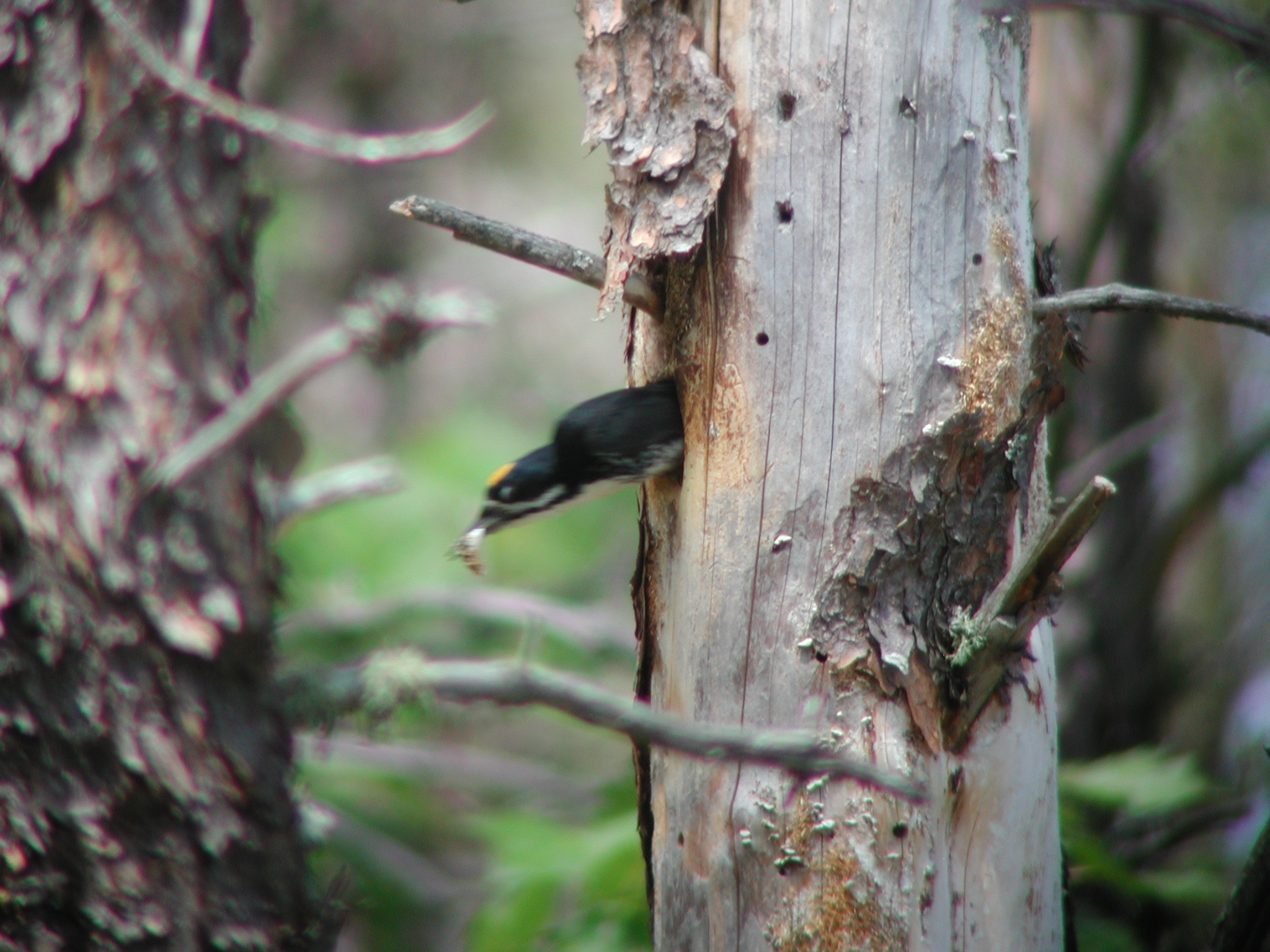 Please acknowledge any use of this photo to Caleb G. Putnam.